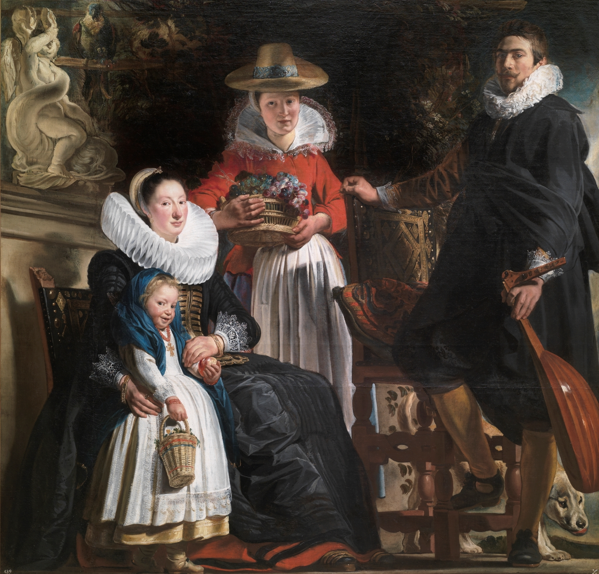 The Family of the Artist. Oil on canvas, 1810 x 1870 mm (71 1/4 x 73 5/8"). Museo Nacional del Prado, Madrid.The picture shows the painter himself with his wife Catharina van Noort, his eldest daughter Elizabeth and a maid.